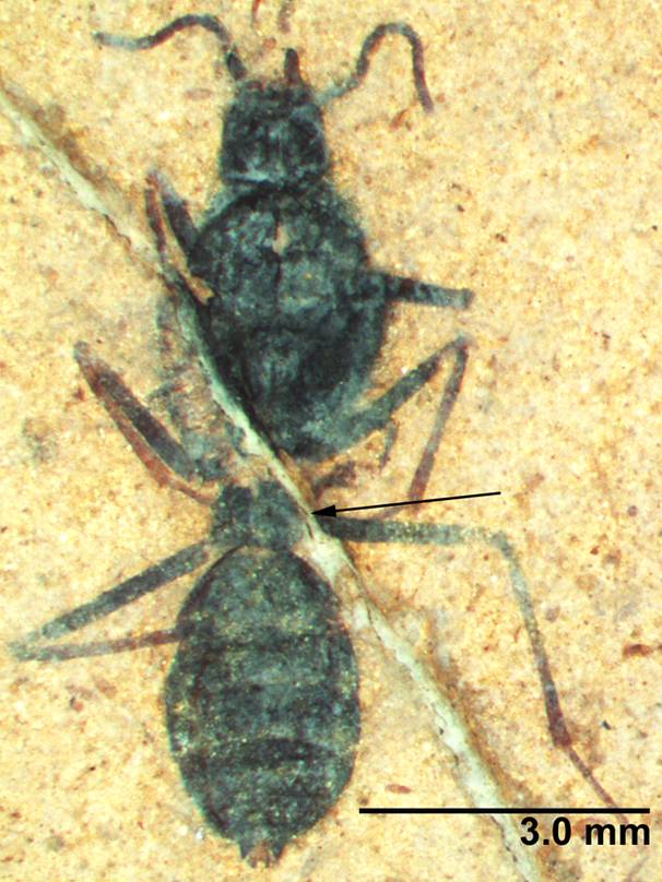 Dorsal view of the Eoformica latimedia holotype worker Lutetian, Middle Eocene; Kishenehn Formation; Middle Fork of the Flathead River, Montana. United States. US Natural History Museum, Washington D.C., United States; specimen USNM609612